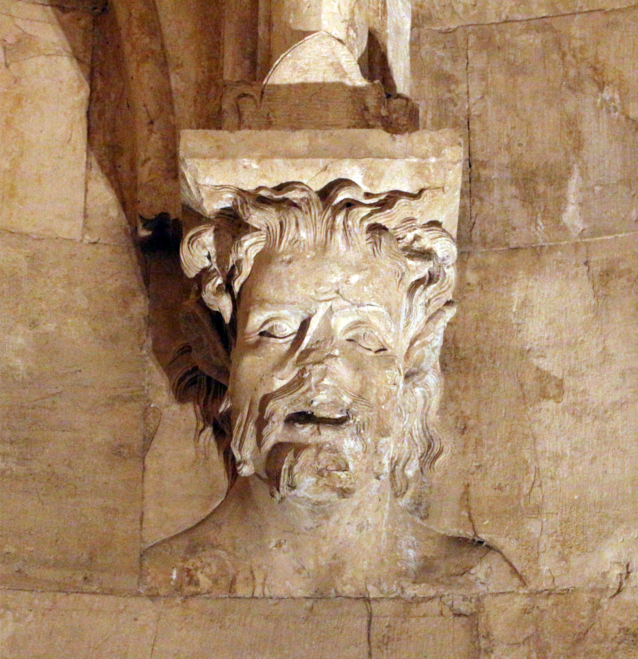 Interior of the Castel del Monte